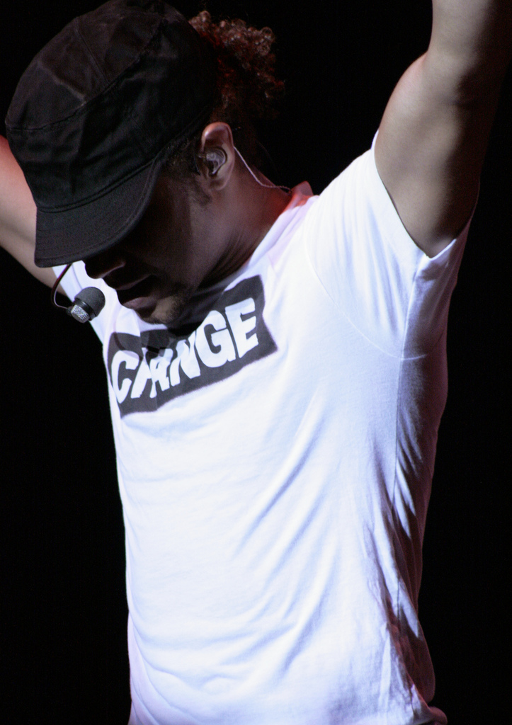 Singer Corbin Bleu From Brooklyn, New York City.